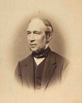 Danish master carpenter, businessman, politician Harald Hartvig Kayser (1817-1895)